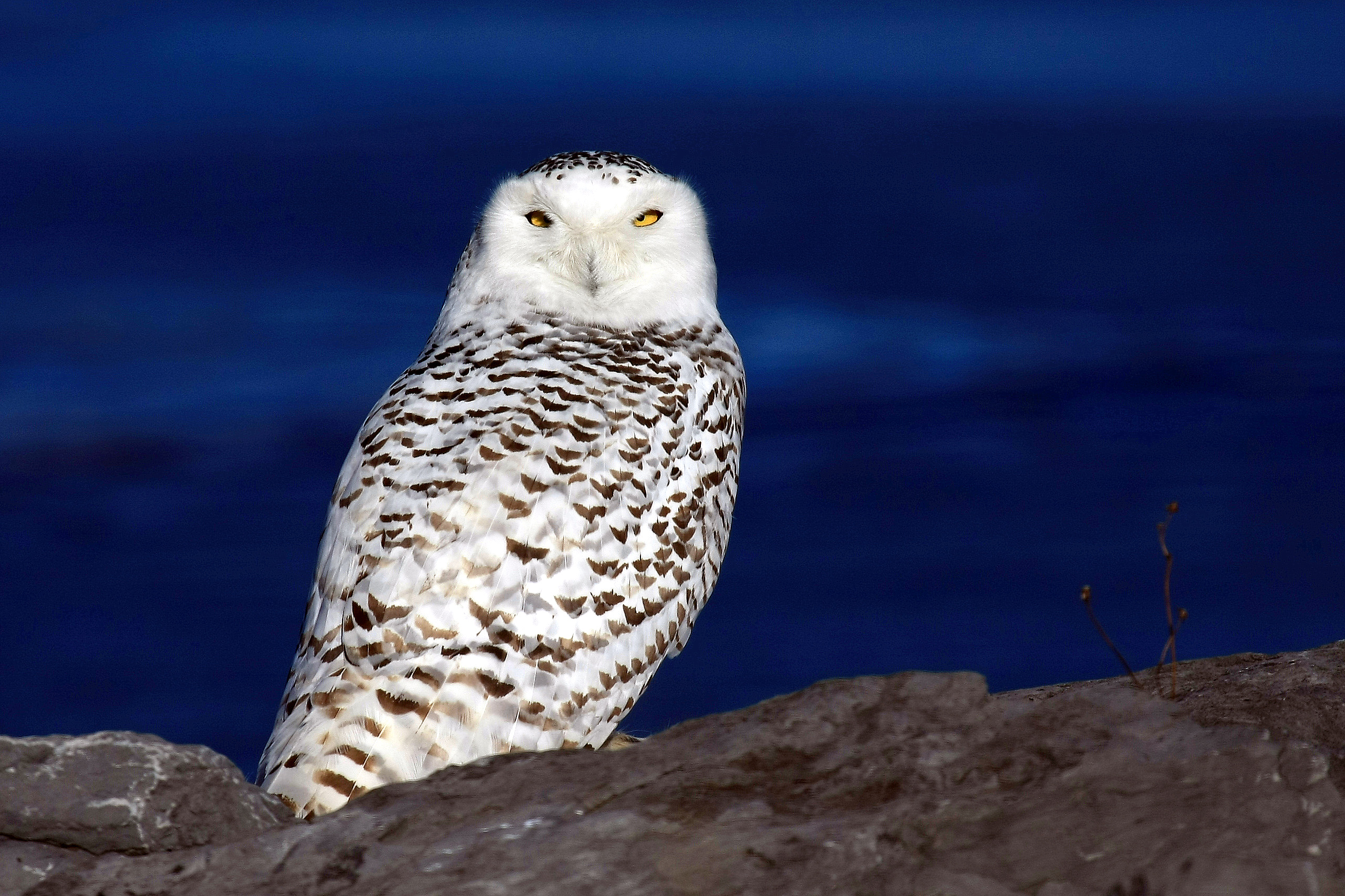 Snowy Owl Bubo scandiacus, Canoga, New York, USA.